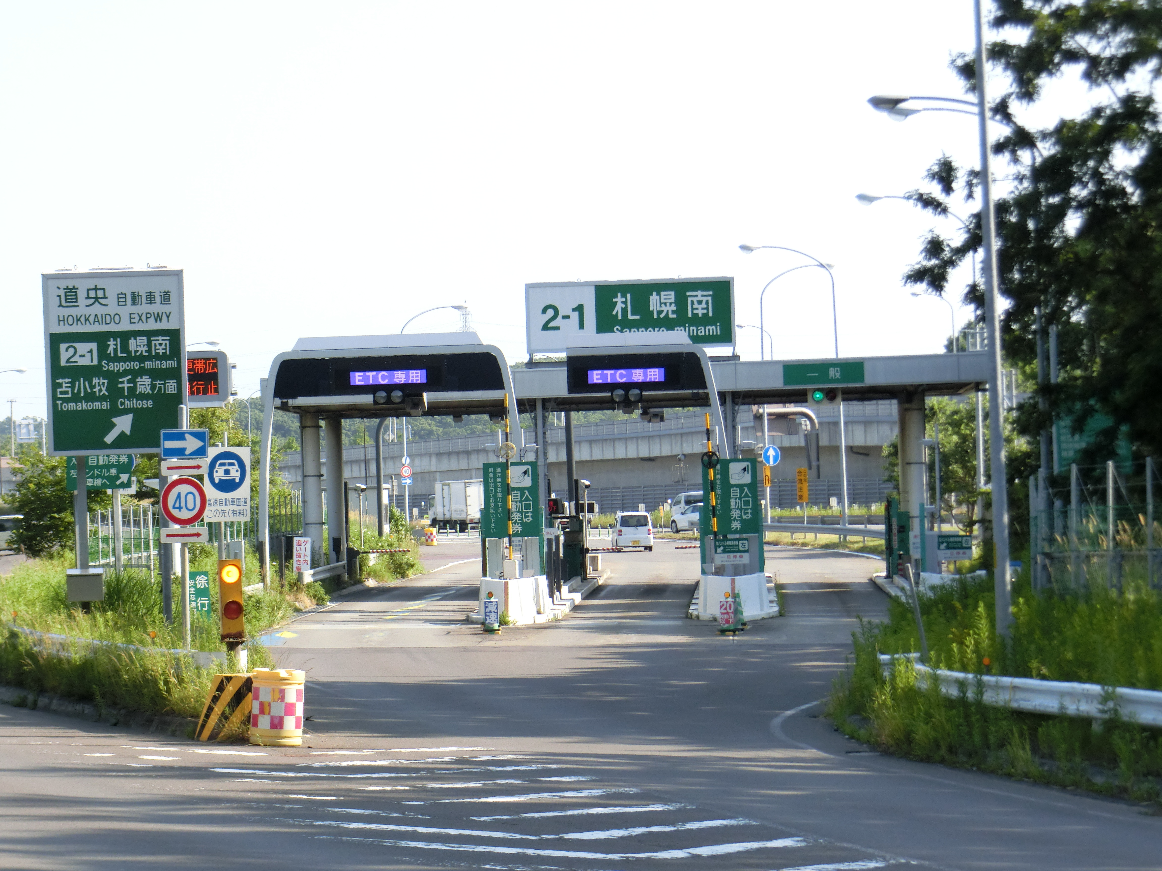 Sapporo Minami IC Toll Gate located in Kami-Nopporo, Atsubetsu Ward, Sapporo, Hokkaido